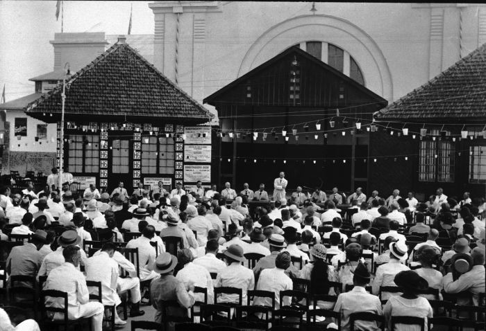 Meeting at the Trade Fair in Bandung